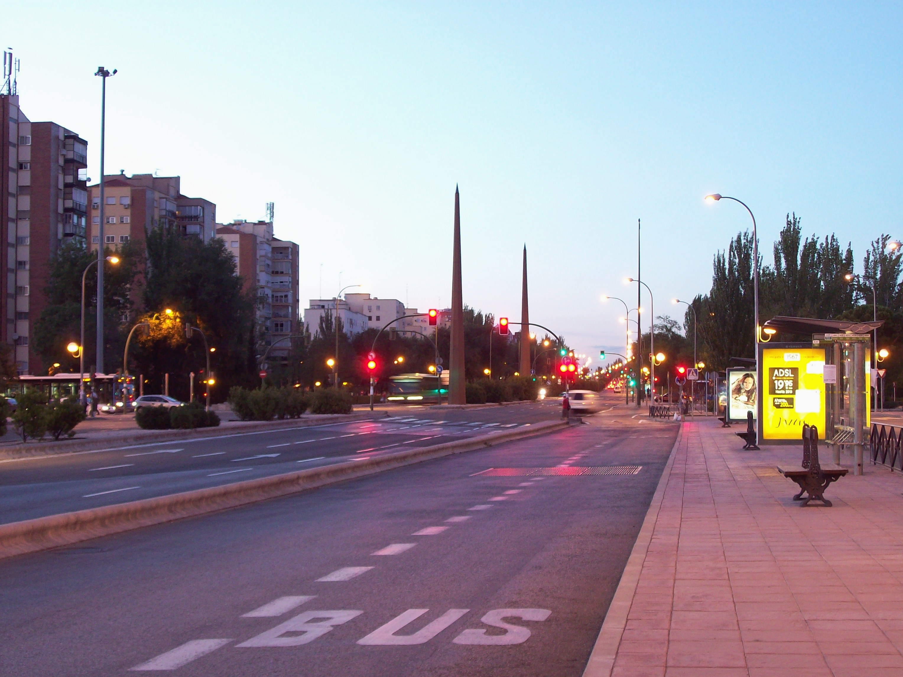 View from Avenida de Andalucía (avenue) in Villaverde district in Madrid (Spain).